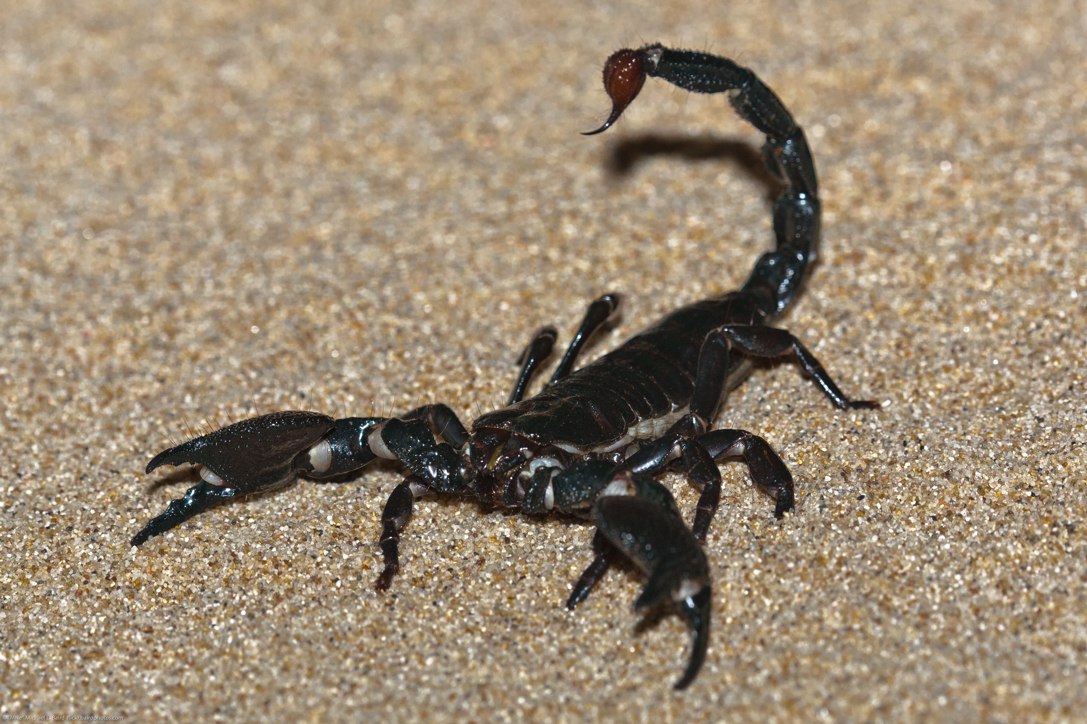 This emperor scorpion or imperial scorpion (Pandinus imperator) is a species of scorpion native to Africa.